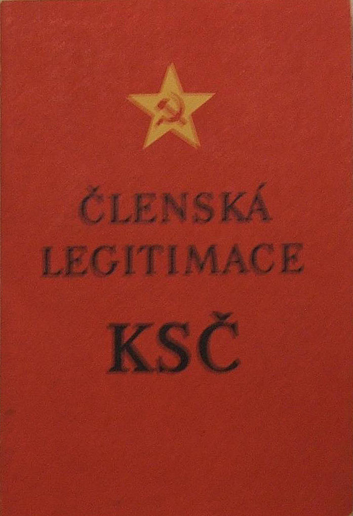 Member's card of Communist party of Czechoslovakia